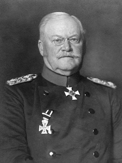 Maximilian of Prittwitz and Gaffron, colonel general